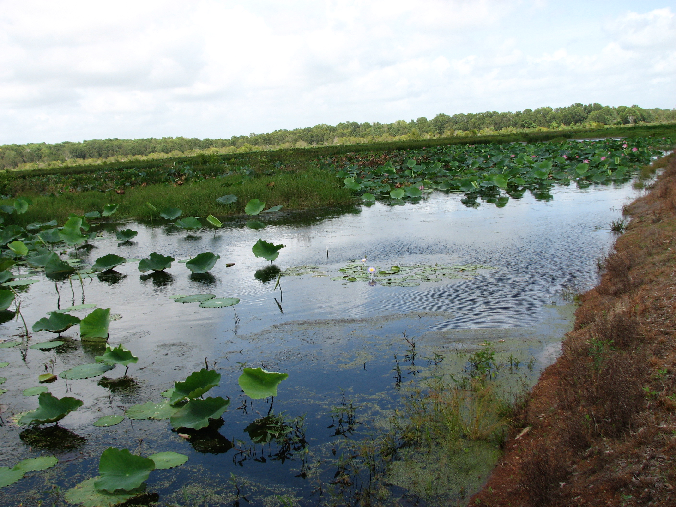 Fogg Dam in January 2008.